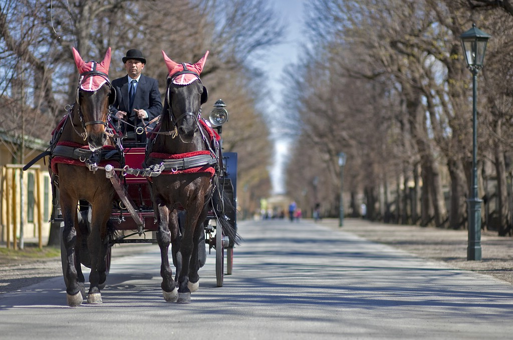 Fiaker auf der Hietzinger Fahrstraße in Schönbrunn.